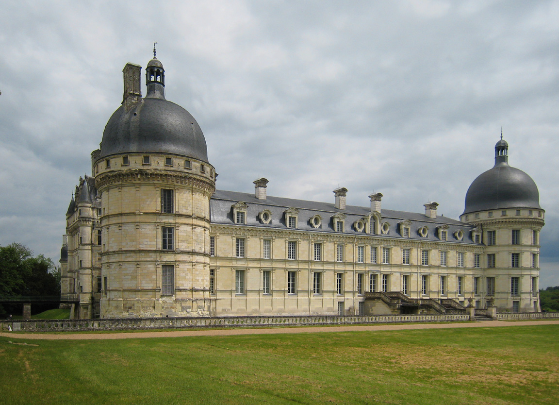 Chateau de Valencay, park wing